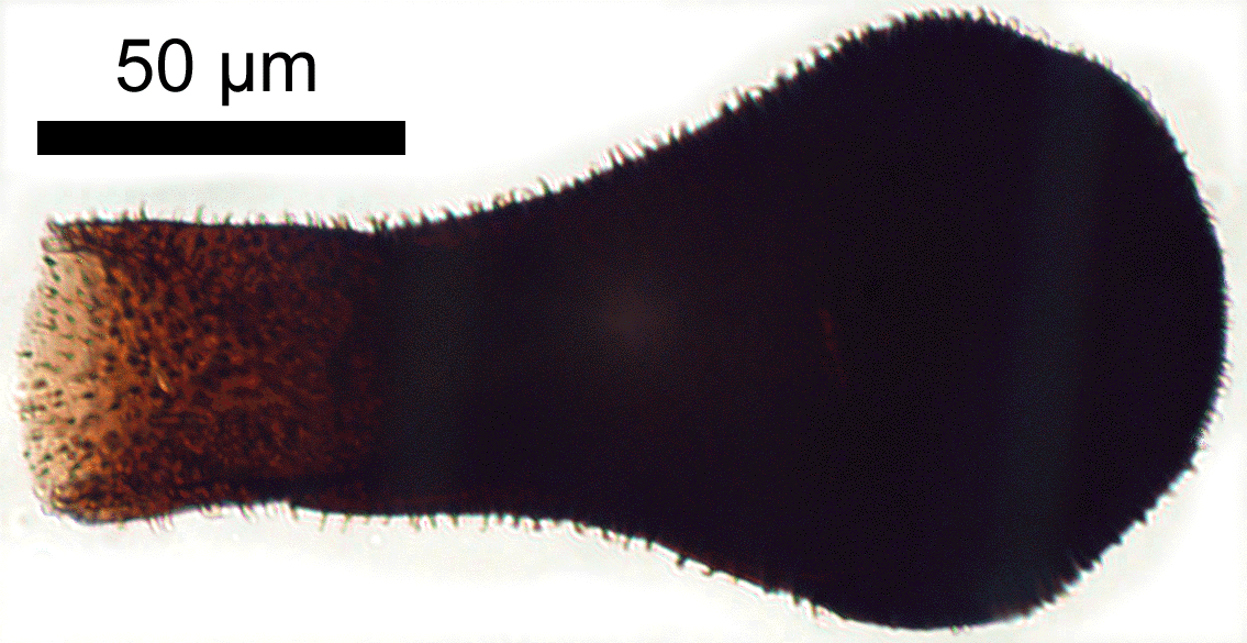 A Chitinozoan from the Middle Burgsvik Beds, Ludlow (Upper Silurian), of Gotland, Sweden, photographed in transmitted light.